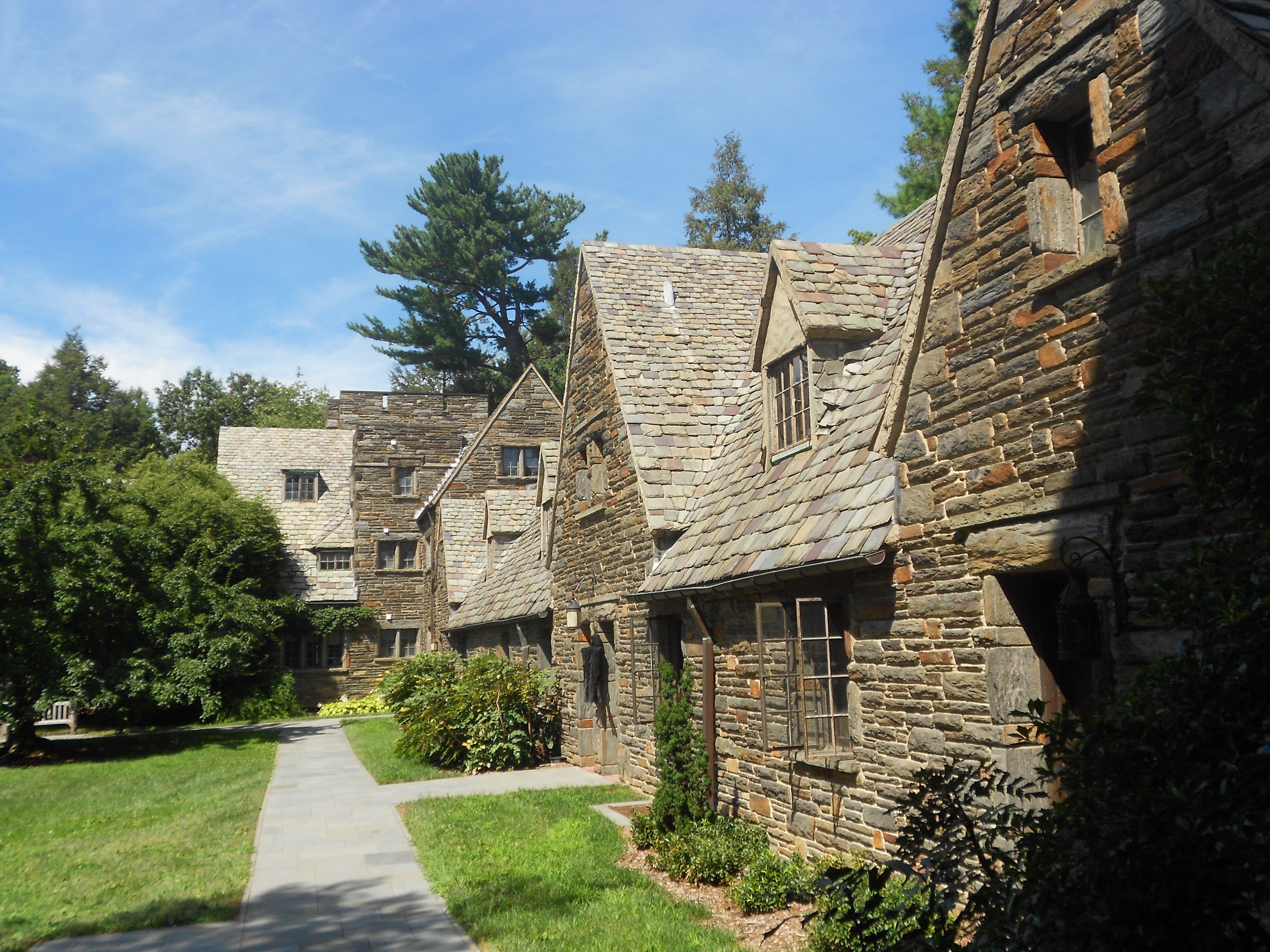 Bond Hall at Swarthmore College in Swarthmore, Delaware County, Pennsylvania